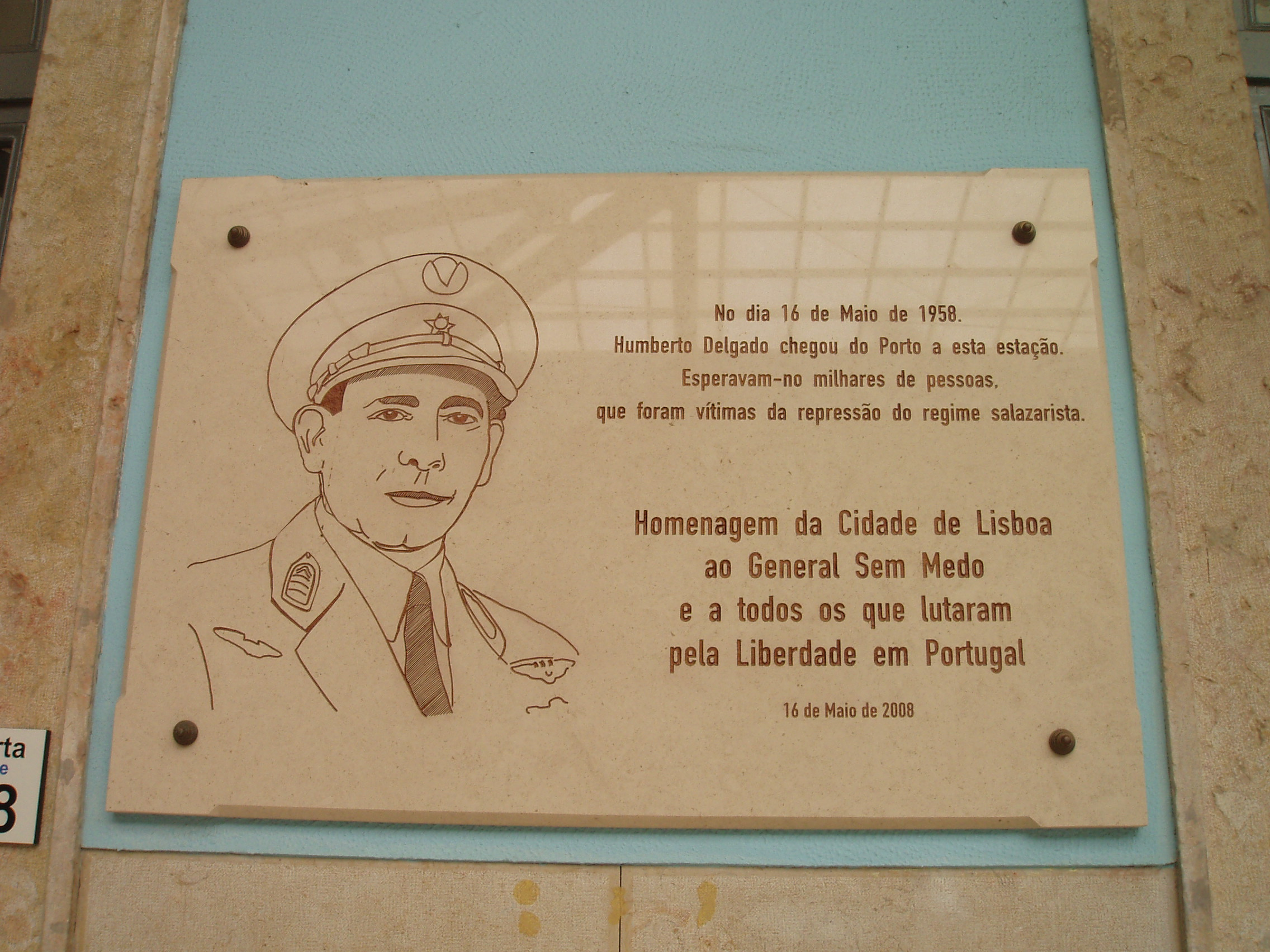 Humberto Delgado plaque at Santa Apolonia train station in Lisbon.